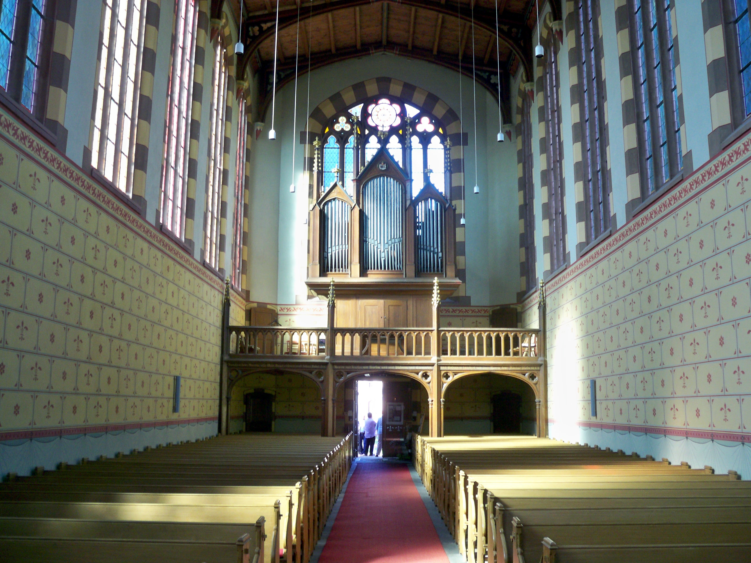 Letzlingen, Schlosskirche (castle church), view towards organ